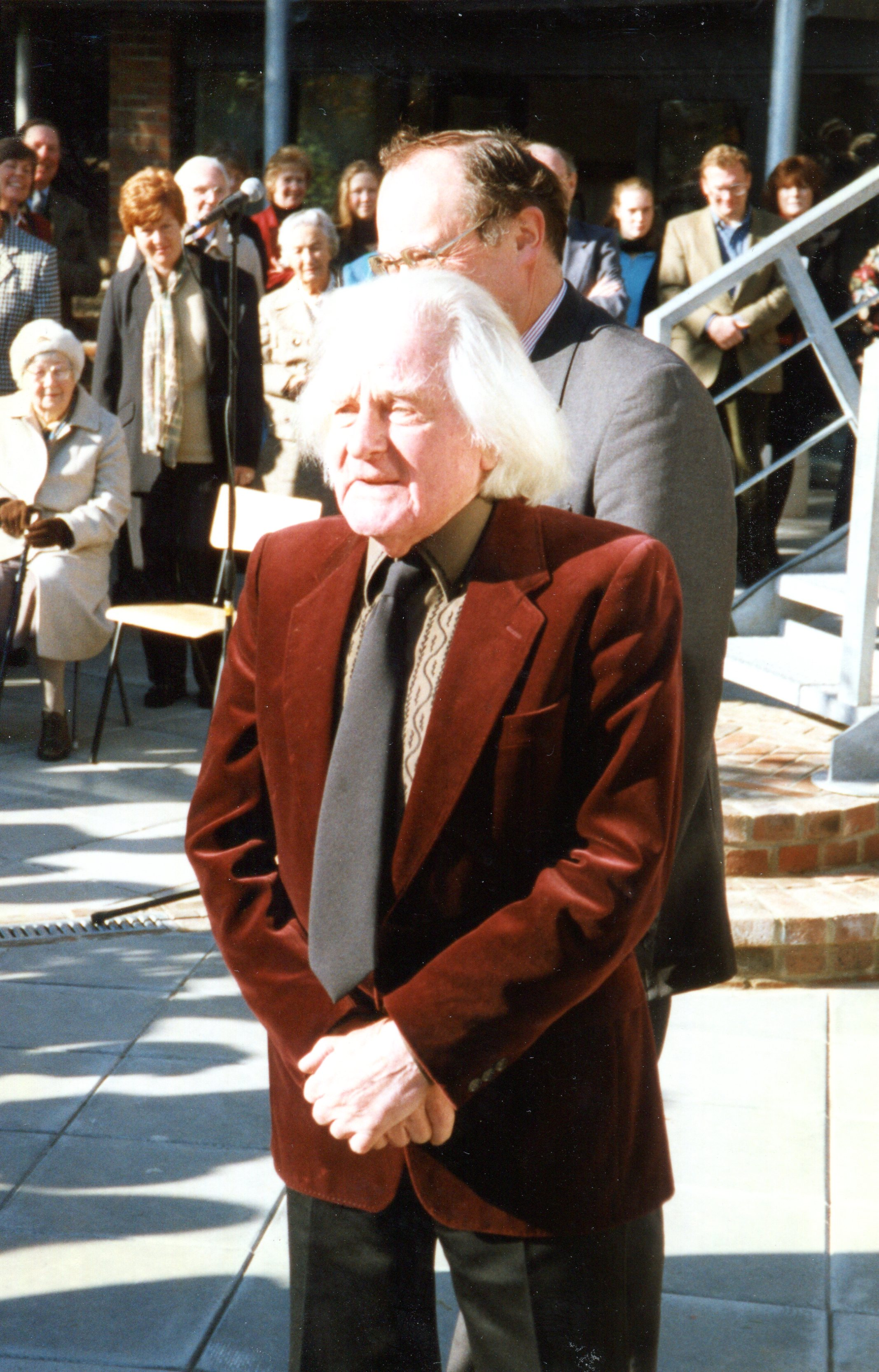 Don Potter at the opening of the Don Potter Art School, Bryanston School, Dorset, England, October 1997. Digitized on 24 September 2019.